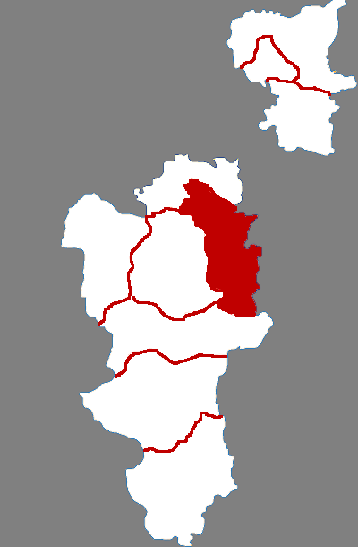 Location of Anci district in Langfang City, China